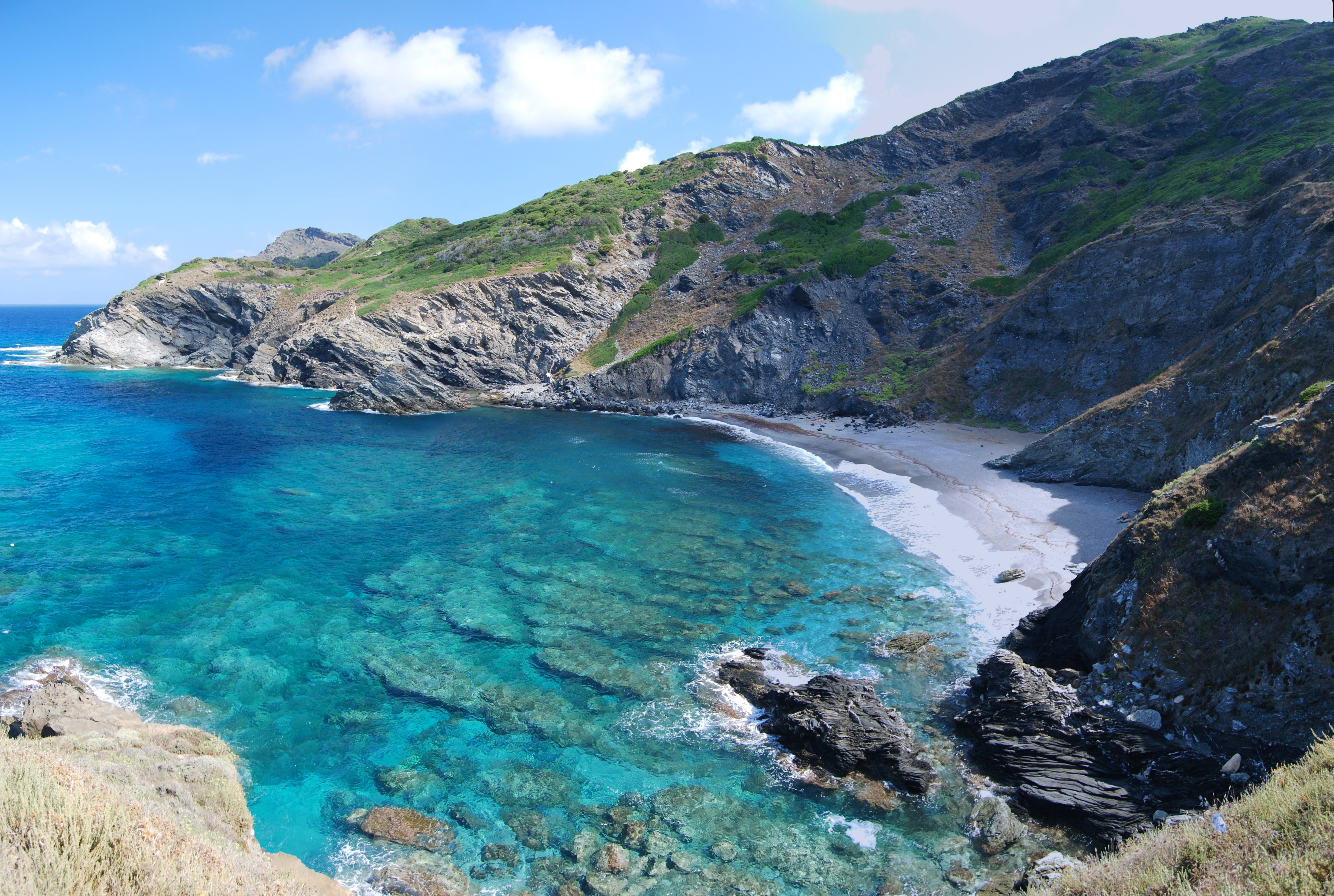 Sassari, Province of Sassari, Italy